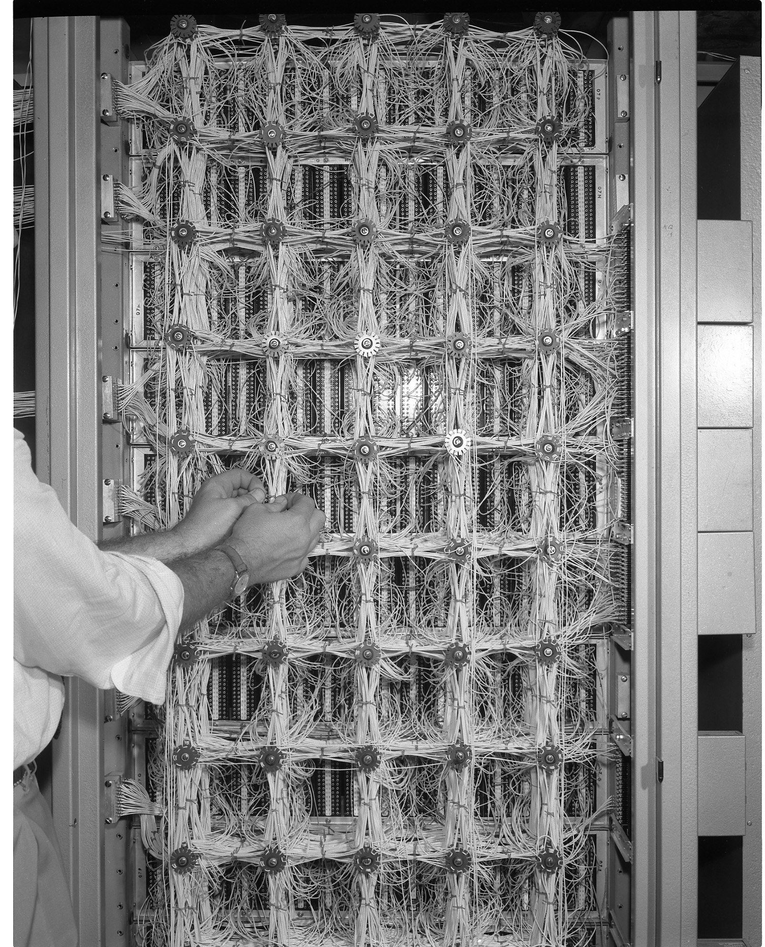 Wiring on a Electronic Recording Machine, Accounting machine